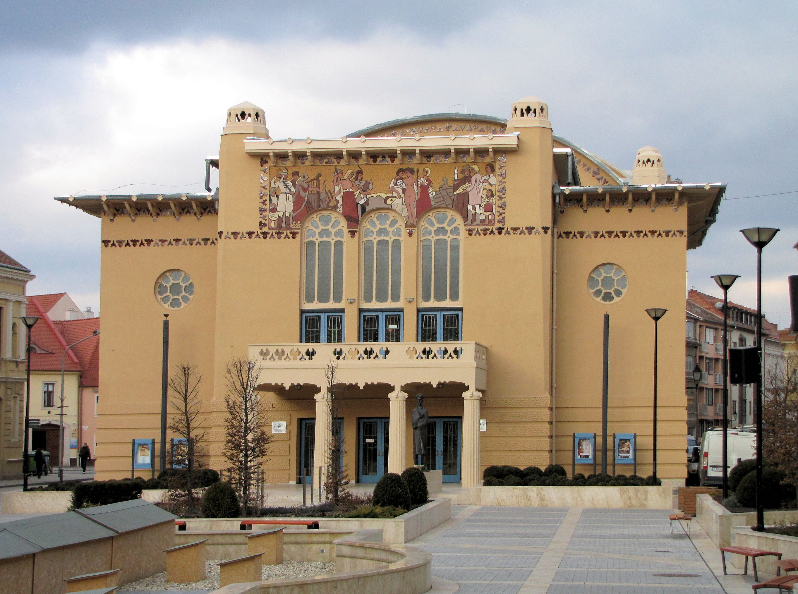 Petőfi Theater, Sopron. Architect: István Medgyaszay, 1909.